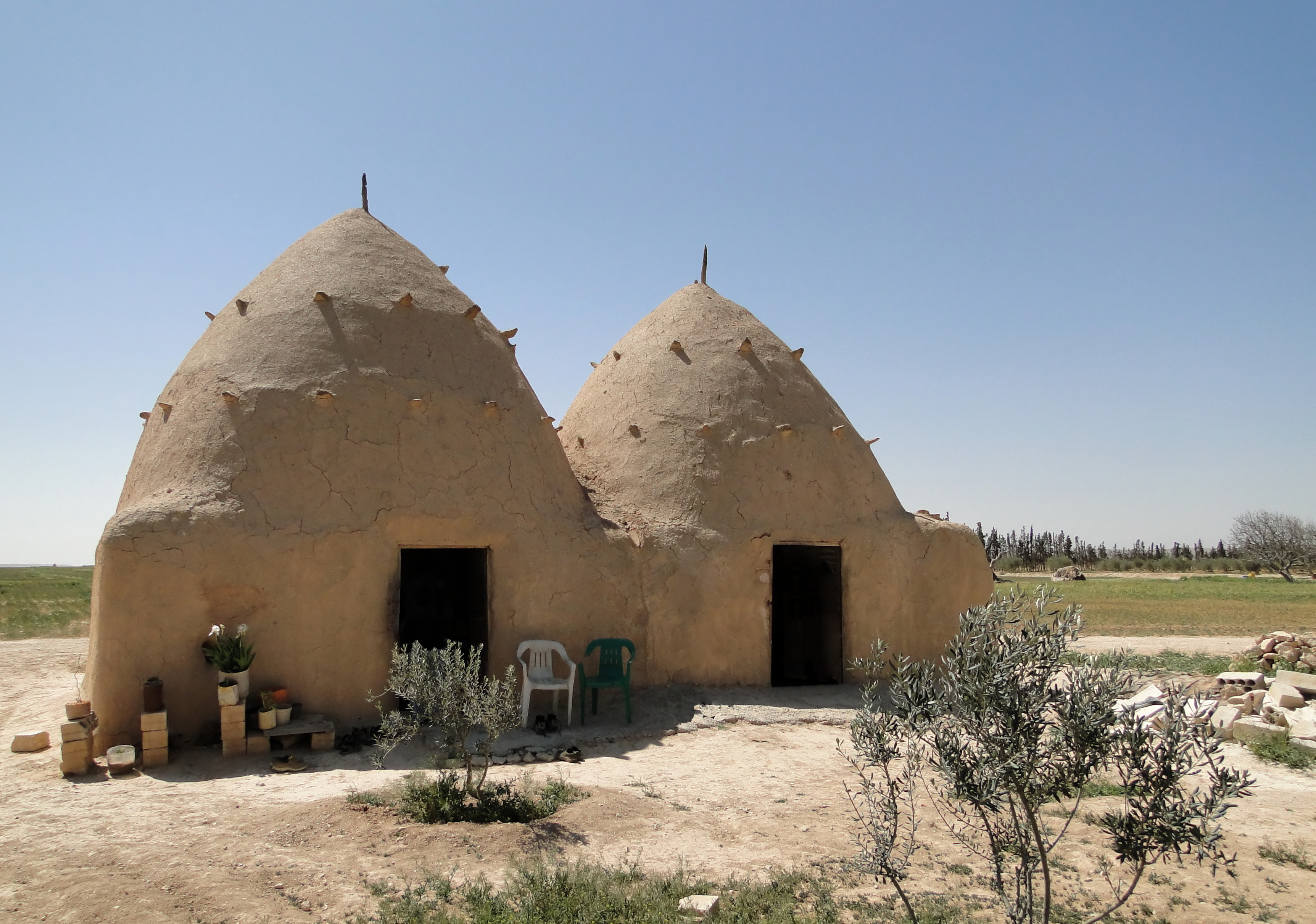 Mud Beehive houses near Aleppo, Syria